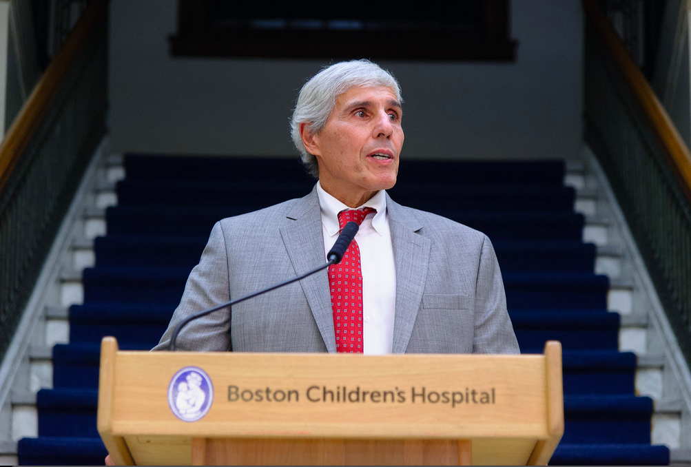 Howard Shane Speaking